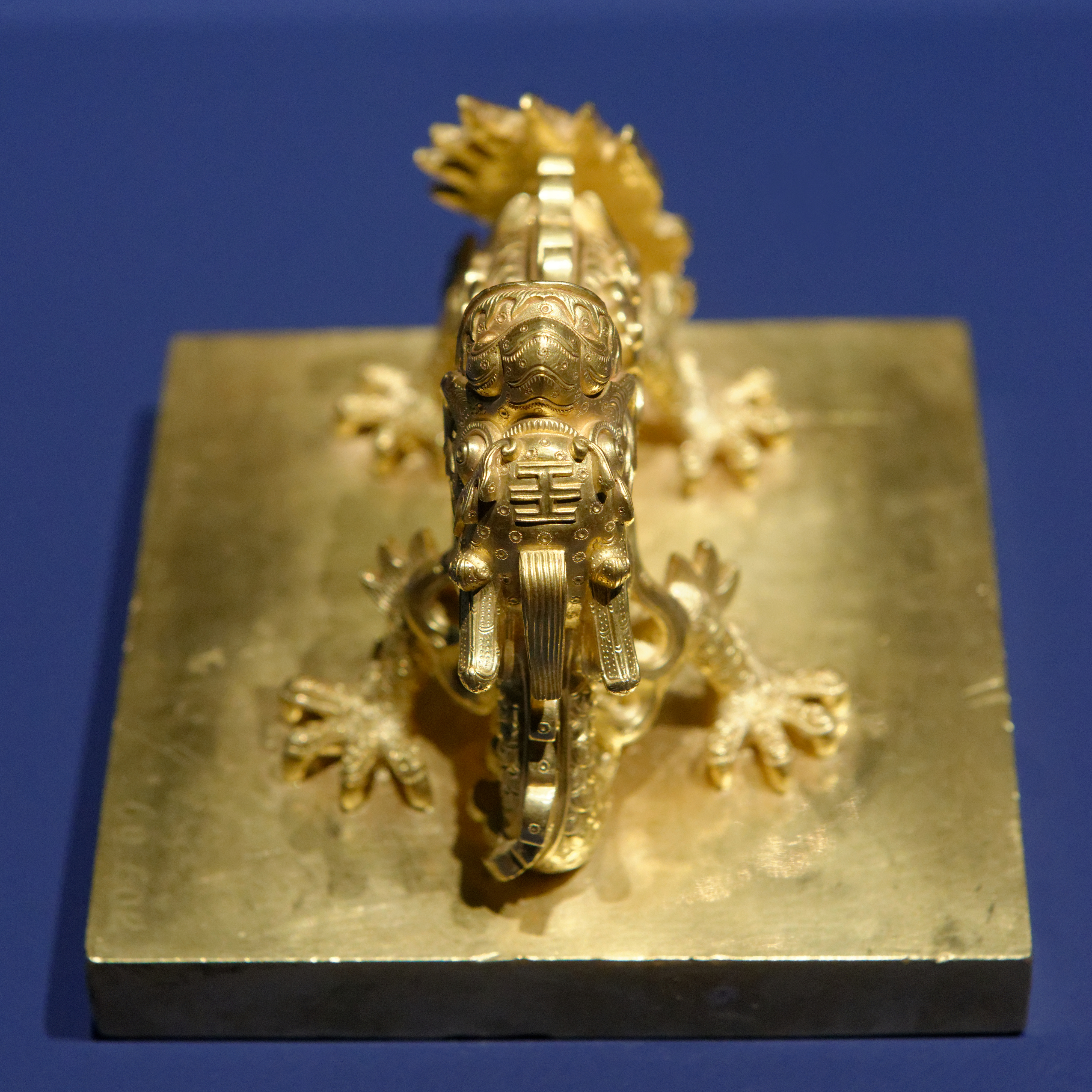 Seal of Emperor Khải Định.